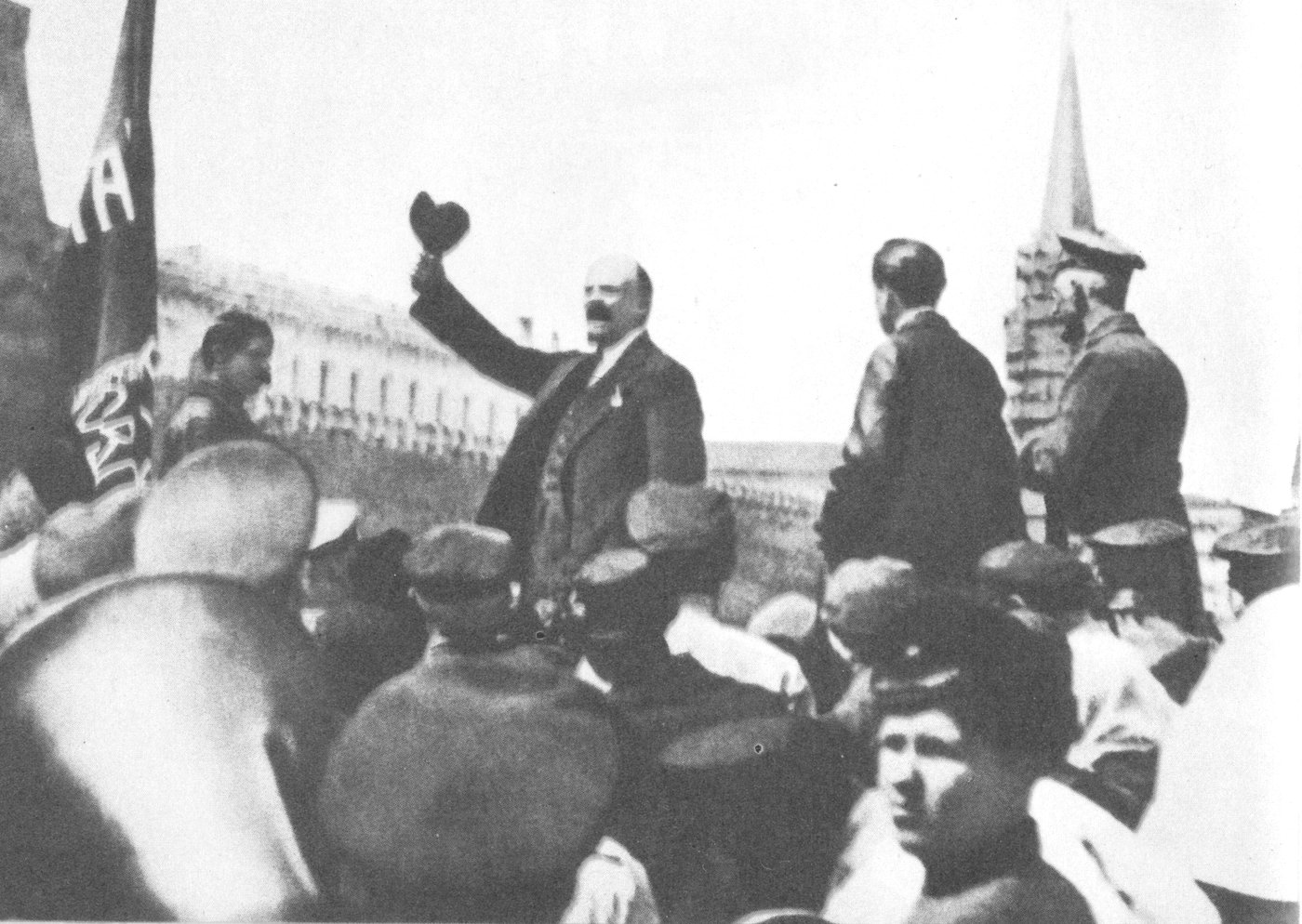 Lenin_on_parade_of_Vseobuch_in_Moscow_1919_by_Kuznetsov_K